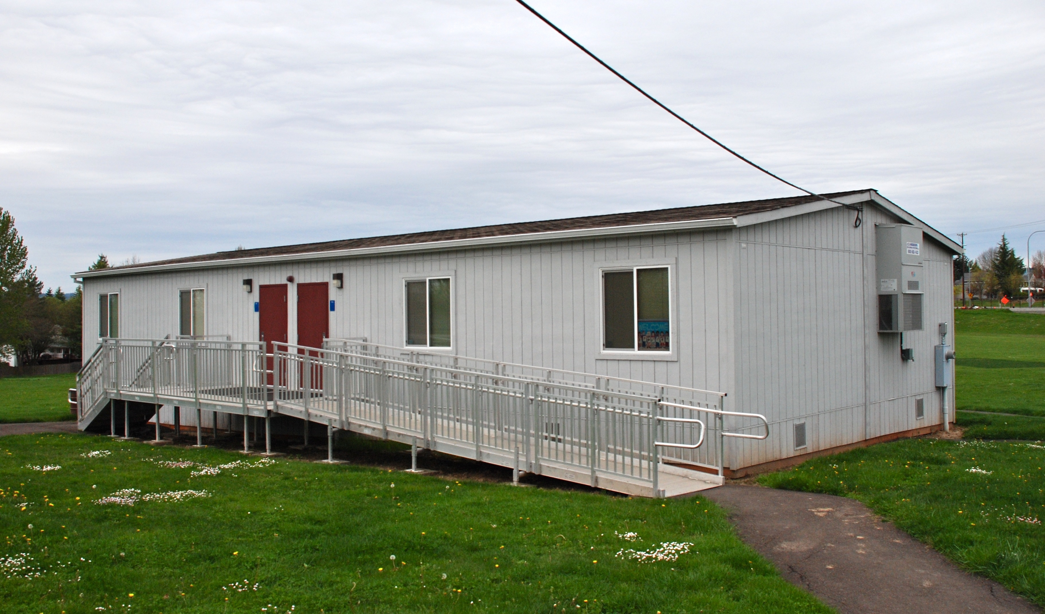 Portable classroom building. This building has probably been divided internally into two classroom, needing two separate entrances. This building is at Rock Creek Elementary School (Beaverton School District, but this location is not in Beaverton), in the unincorporated Rock Creek area of Washington County, Oregon.